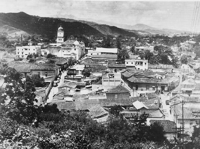 Town of Petare at the beginning of the XX Century (C. 1920´s - 1930´s)